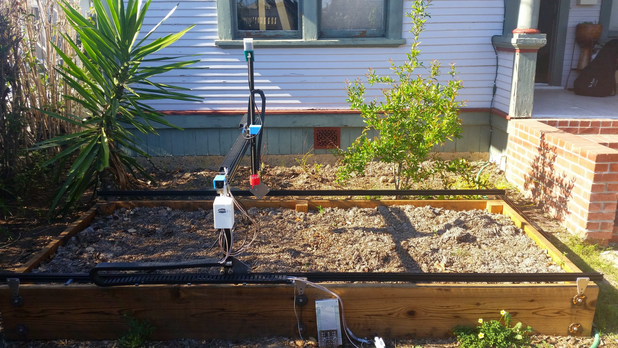 FarmBot Genesis bed unplanted